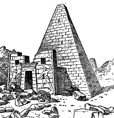 An illustration from the Encyclopaedia Biblica, a 1903 publication which is now in the public domain. Fig. 3 for article "Ethiopia". Image of one of the pyramids of Meroe